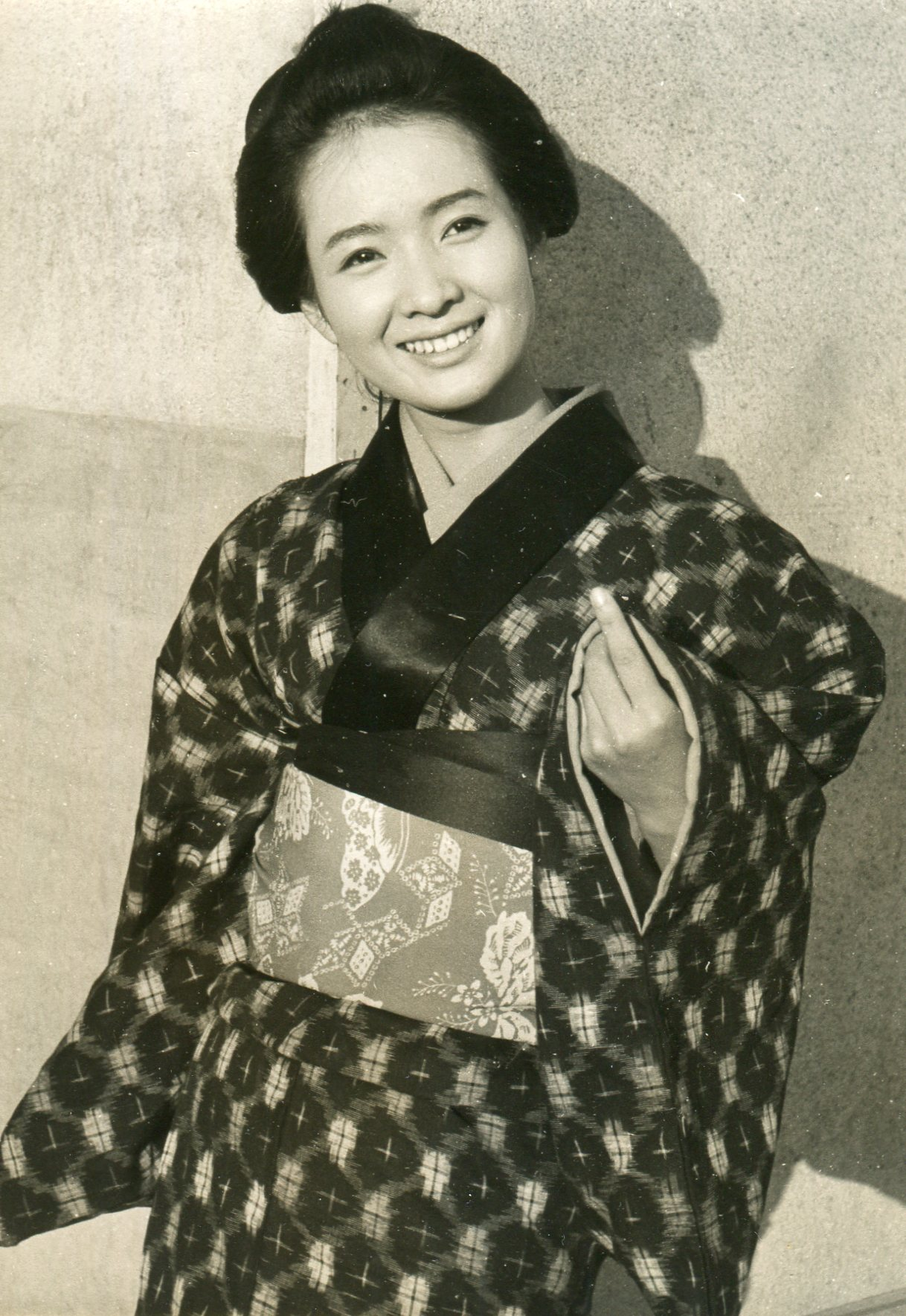 Portrait of the actress Michiko Sugata (the early 1960s)